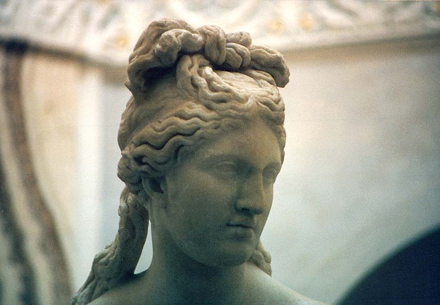 So-called “Capitoline Venus”, one of the best preserved copies of Praxiteles' Cnidian Venus (4th century BC). 1870s. Today.